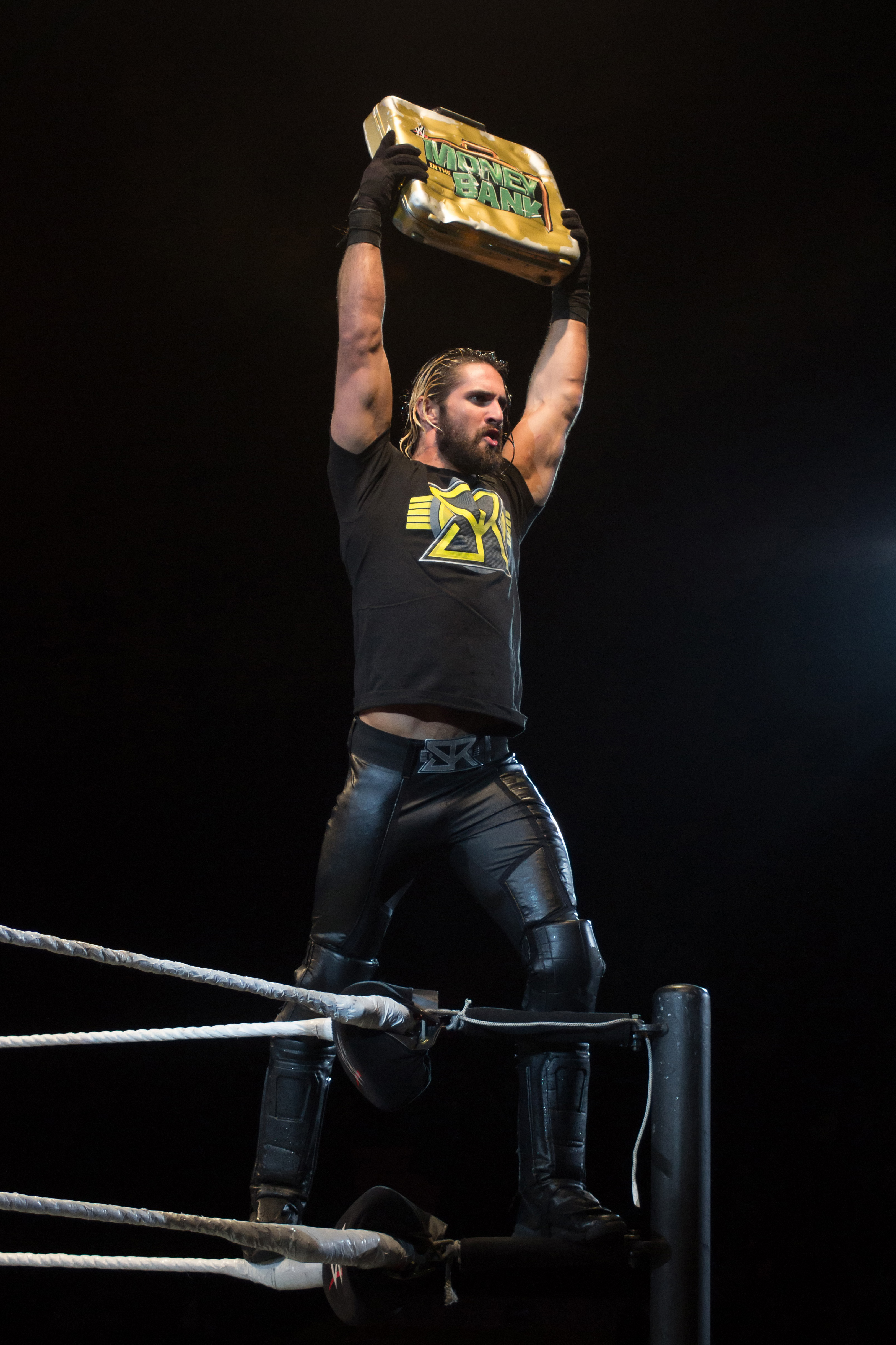 WWE House Show - Garrett Coliseum - 1/10/15